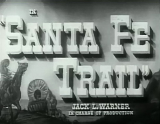 Title of the public domain film Santa Fe Trail (1940).